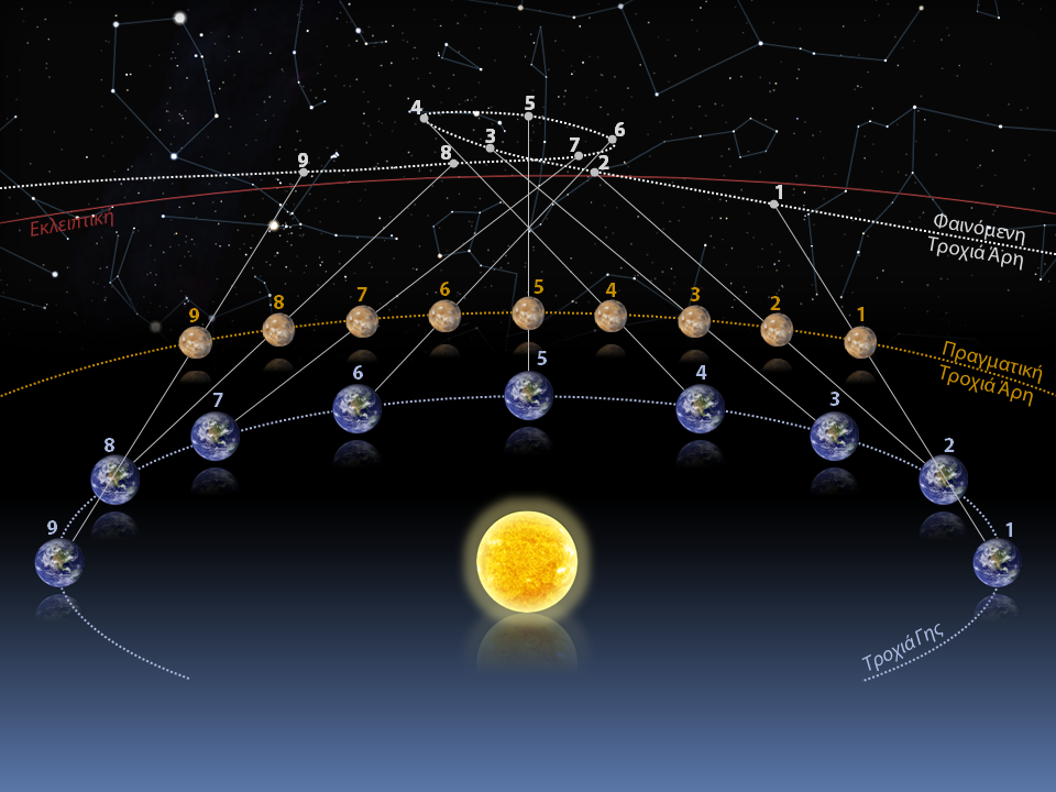 Diagram explaining the apparent retrograde motion of an outer planet as seen from Earth, in this case Mars.